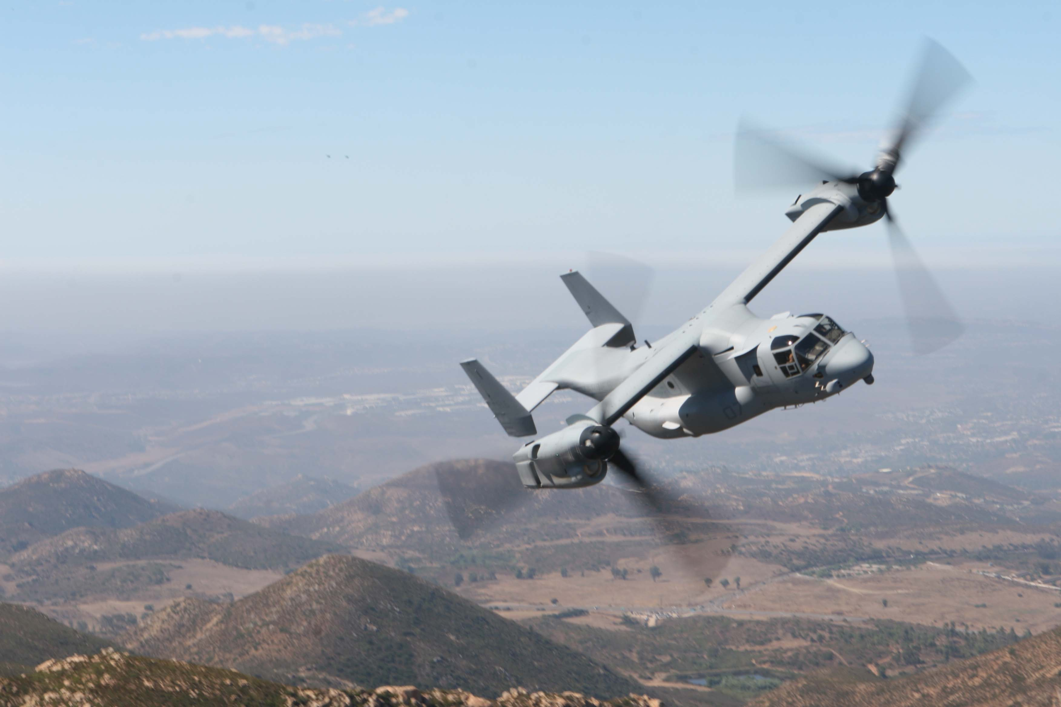 An MV-22 "Osprey" cirlces the city of Poway while wating to join other aircraft for the Marine Air/Ground Task Force demonstration at the 2010 Marine Corps Air Station Miramar Air Show Oct 2.